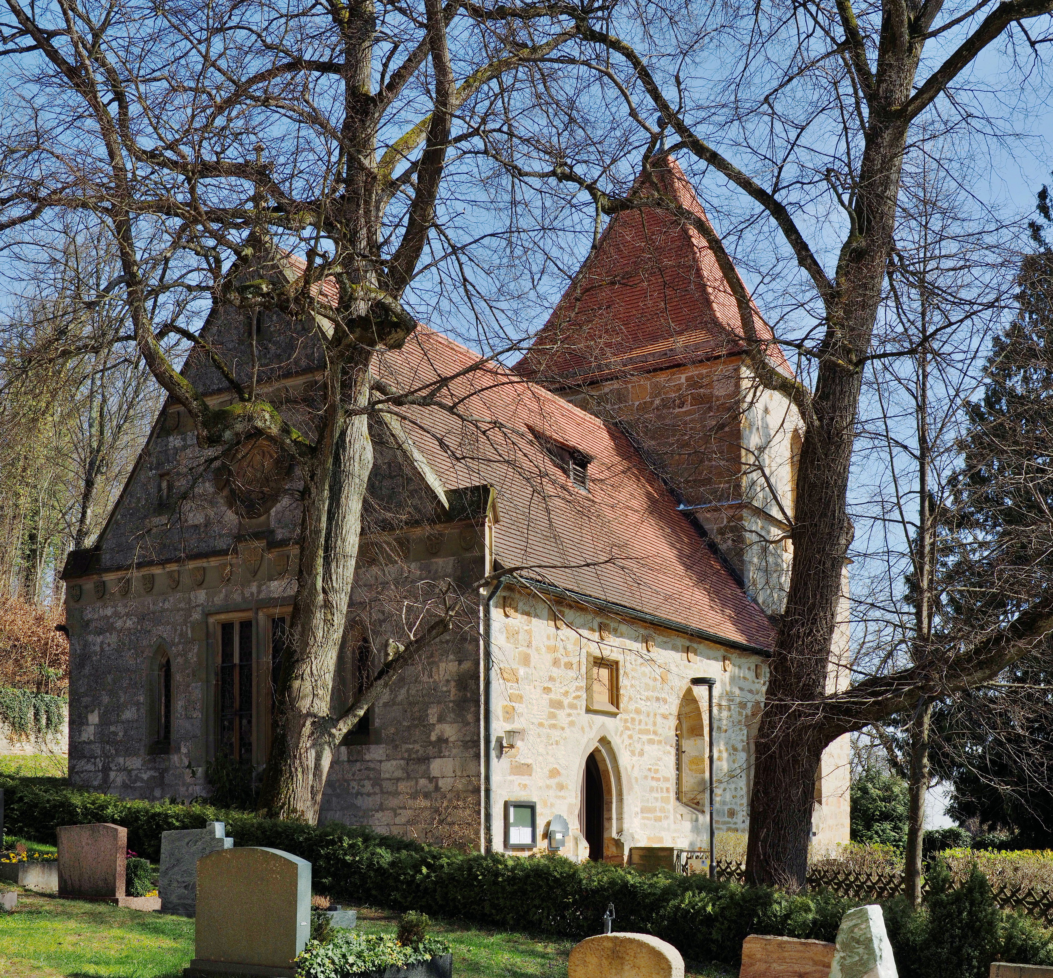 Barbarossa church, Hohenstaufen, Germany